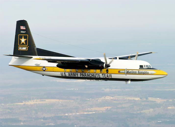 Fokker F27 Friendship US Army Golden Knight